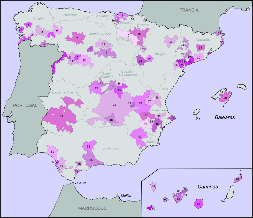 Wine regions of Spain with denominación de origen (DO & DOCa) in 2008. The map is based in municipalities' borders. The DO Catalunya and the DO Cava are not shown, as their zones of production are superimposed on other DO regions. The Vino de Calidad Valles de Benavente (QWpsr), which had not reached DO status yet, and the Vinos de Pago, are not shown either. Leyenda/key Rías Baixas DO (or Rías Bajas) Ribeiro DO Ribeira Sacra DO Monterrei DO Valdeorras DO Bierzo DO Tierra de León DO Cigales DO Arribes DO Toro DO Tierra del Vino de Zamora DO Rueda DO Ribera del Duero DO Arlanza DO Rioja DOCa Txacoli de Álava - Arabako Txakolina DO (Chacolí de Álava) Txakoli de Bizkaia - Bizkaiko Txakolina DO (Chacolí de Vizcaya) Txakoli de Getaria - Getariako Txakolina DO (Chacolí de Guetaria) Navarra DO Campo de Borja DO Cariñena DO Calatayud DO Somontano DO Costers del Segre DO Terra Alta DO Tarragona DO Montsant DO Priorat DOCa (Priorato) Conca de Barberà DO Penedès DO Pla de Bages DO Alella DO Empordà DO (Ampurdán) Binissalem DO Pla i Llevant DO Valencia DO Utiel-Requena DO Alicante DO Yecla DO Bullas DO Jumilla DO Almansa DO Manchuela DO Ribera del Júcar DO Uclés DO Mondéjar DO La Mancha DO Valdepeñas DO Méntrida DO Vinos de Madrid DO Ribera del Guadiana DO Condado de Huelva DO Manzanilla-Sanlúcar de Barrameda DO Jerez-Xérès-Sherry DO (also covers Manzanilla DO area) Málaga DO & Sierras de Málaga DO Montilla-Moriles DO Cava DO (Multiple places, not represented) La Palma DO El Hierro DO La Gomera DO Abona DO Tacoronte-Acentejo DO Valle de Güímar DO Ycoden-Daute-Isora DO Valle de La Orotava DO Gran Canaria DO Lanzarote DO Catalunya DO (Not represented, see File:DO Catalunya location.svg)